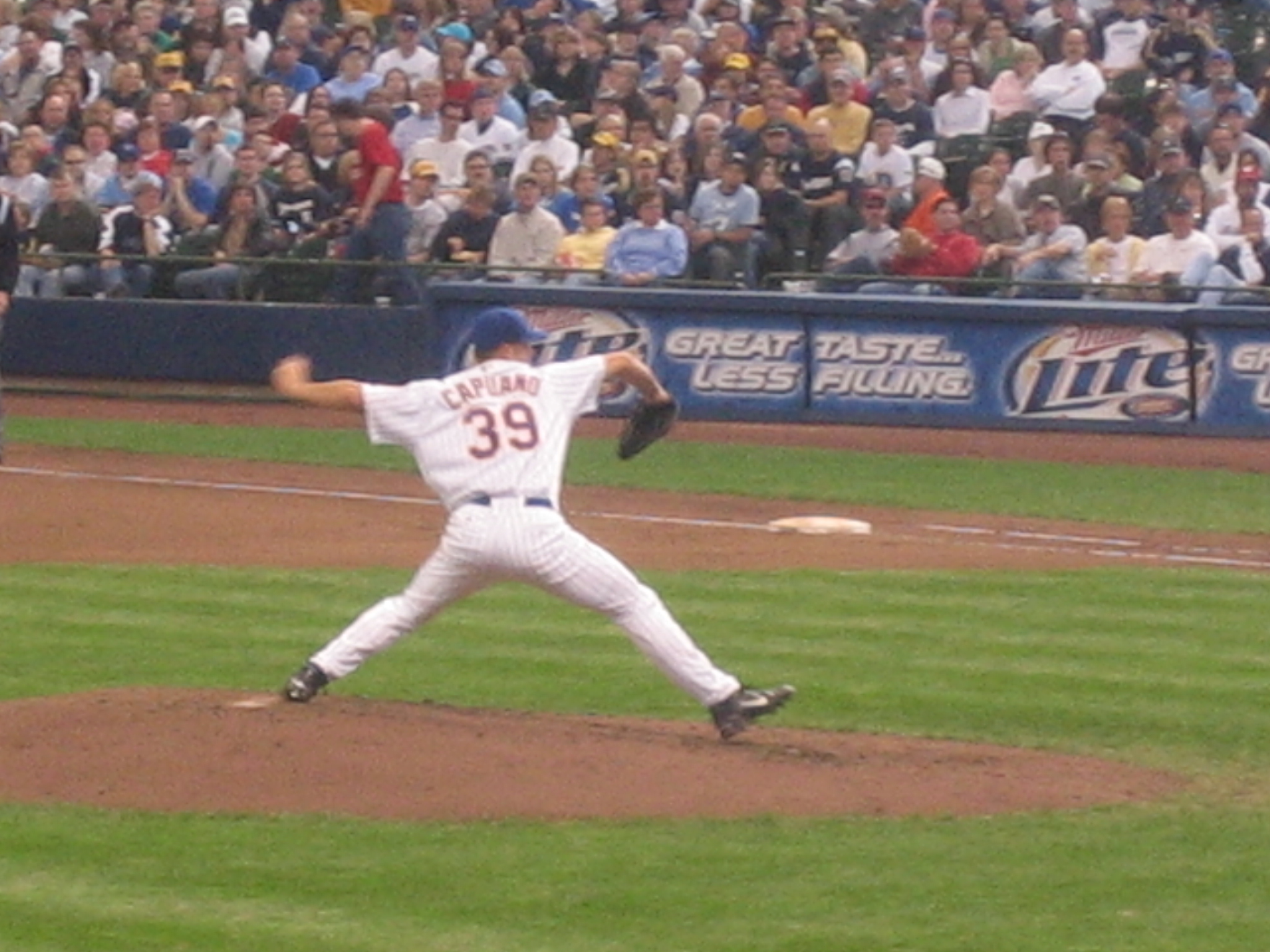 Throwing the ball.